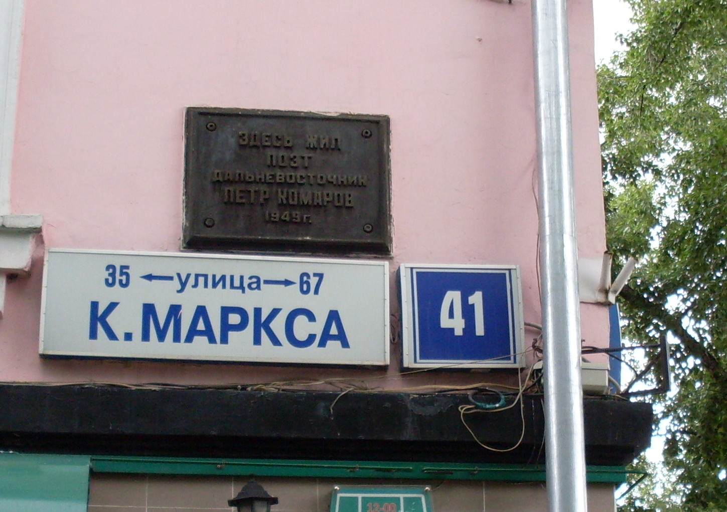 P Komarov memorial board in Khabarovsk